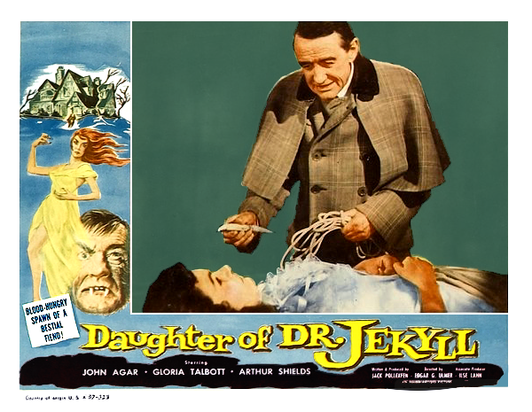 Colored lobby card featuring Gloria Talbott and Arthur Shields in The Daughter of Dr. Jekyll (Allied Artists, 1957). Image is assumed to be in the public domain as no copyright notice has been attached.